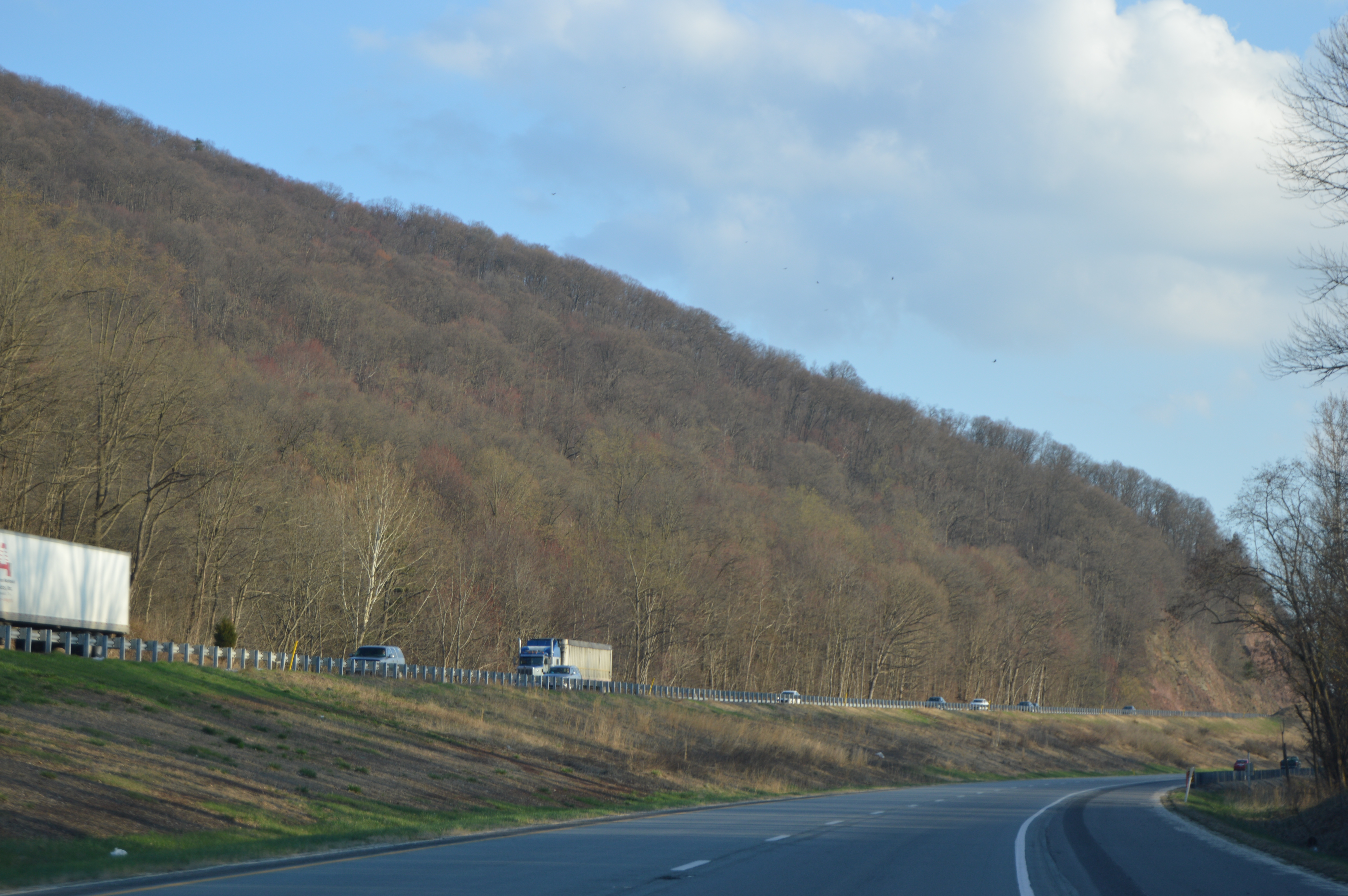 Looking south along U.S. Routes 22/322 below Millerstown in southwestern Greenwood Township, Perry County, Pennsylvania, United States. Dominating the scene is the northern side of the western end of Buffalo Mountain.